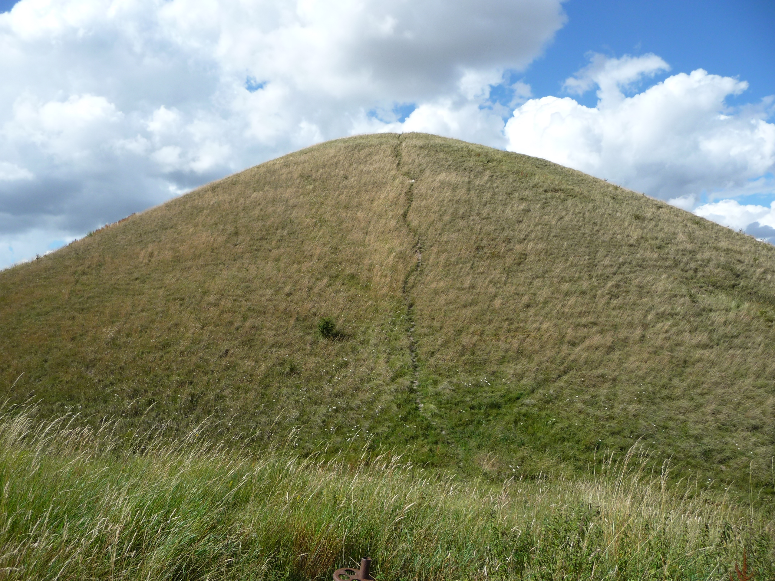 Silbury Hill